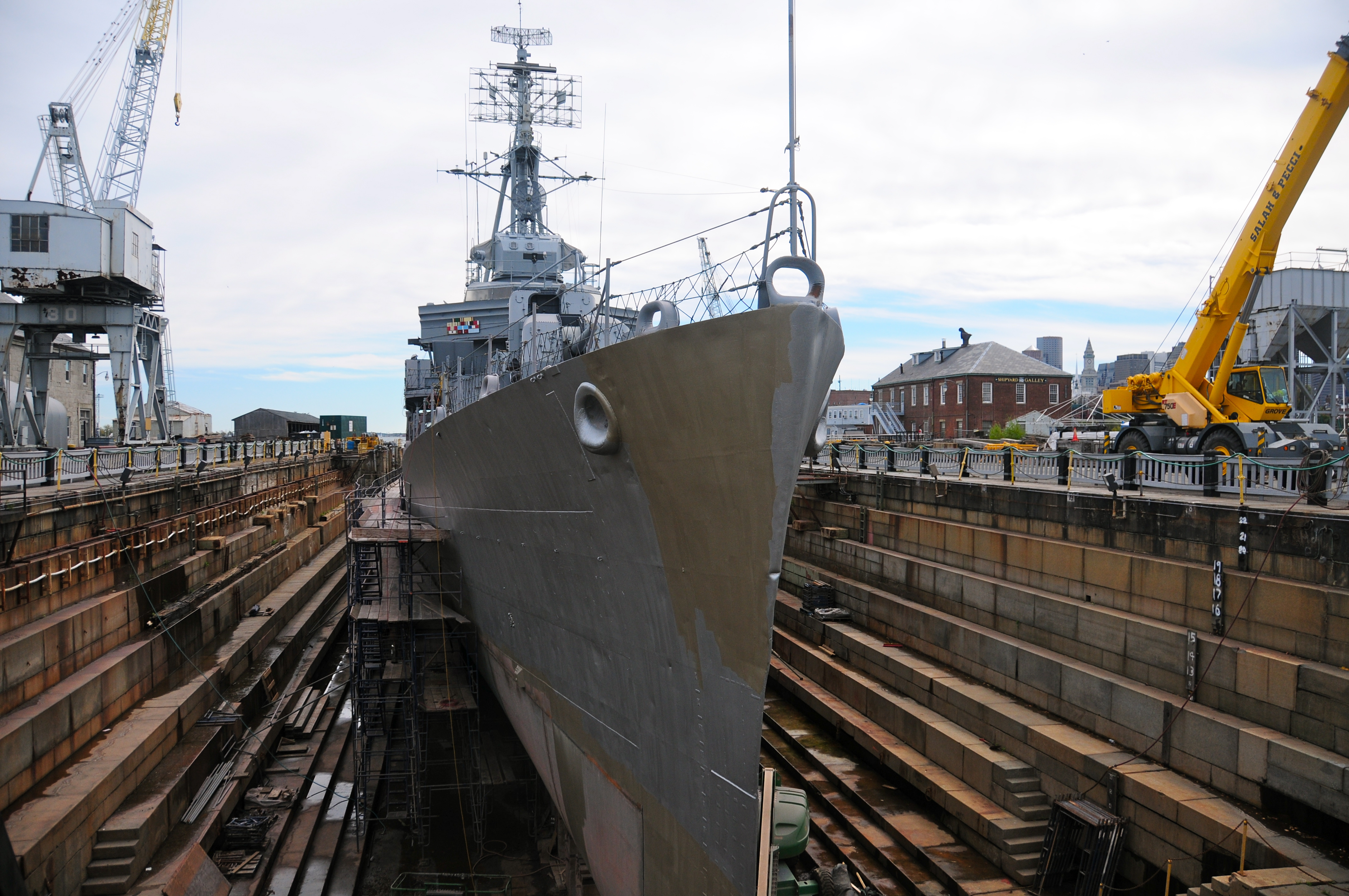 USS Cassin Young (DD-793) in Dry Dock Number 1 at the Boston Navy Yard